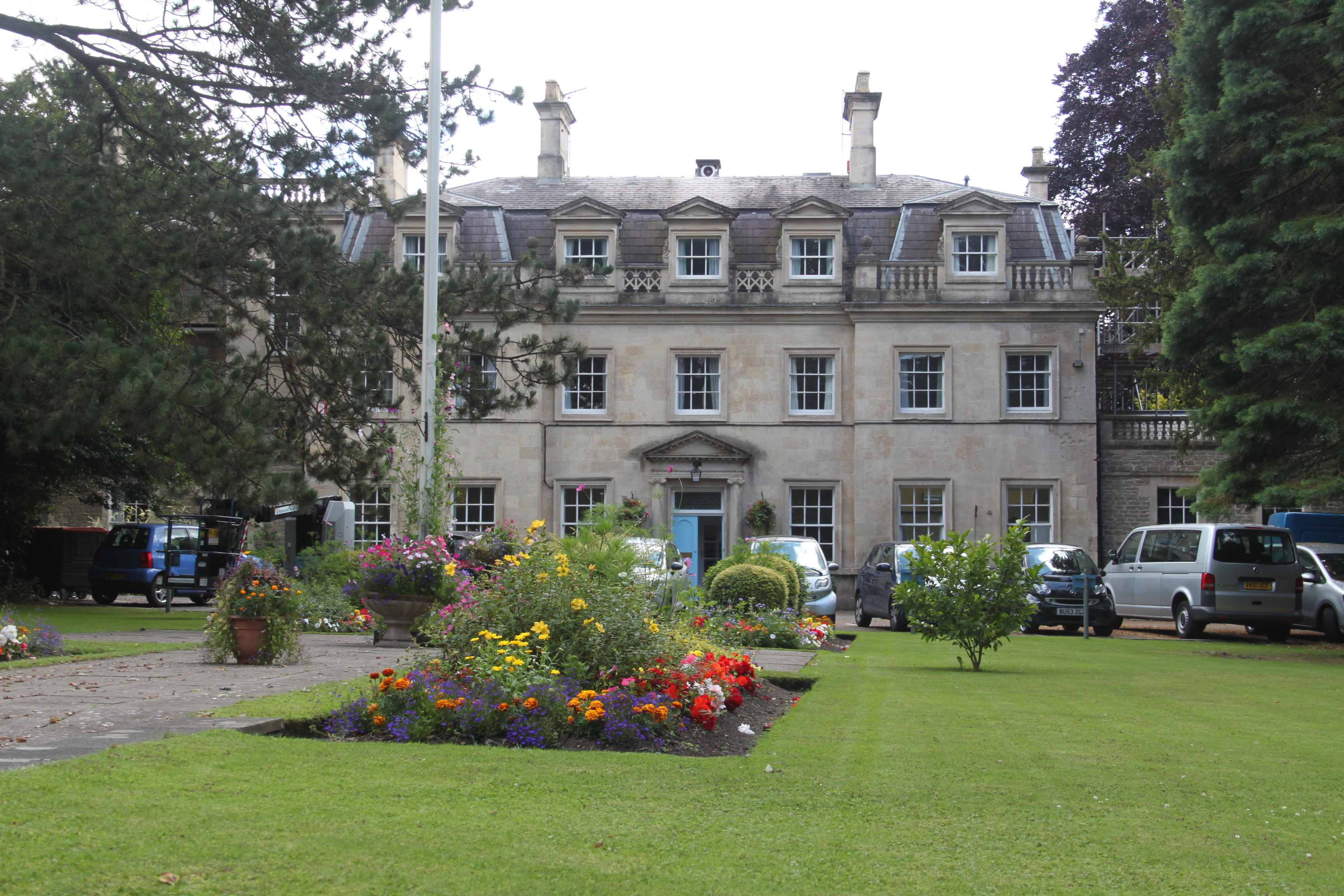 North Hill House School